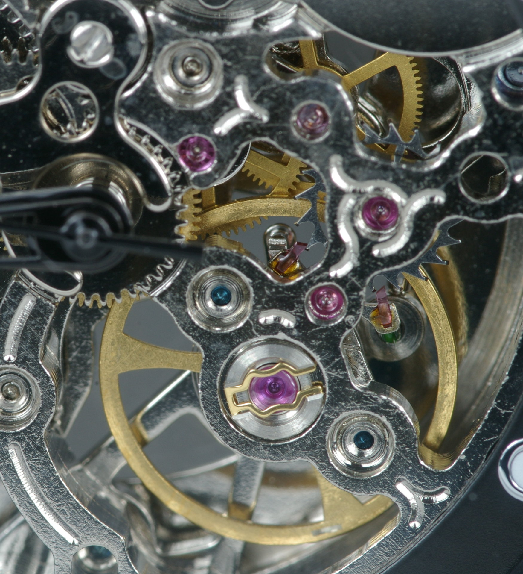 The balance wheel, pallet fork, escapement wheel, and a few of the gears of a Chinese movement in a skeleton watch, as seen in File:Automatic skeleton watch.jpg.